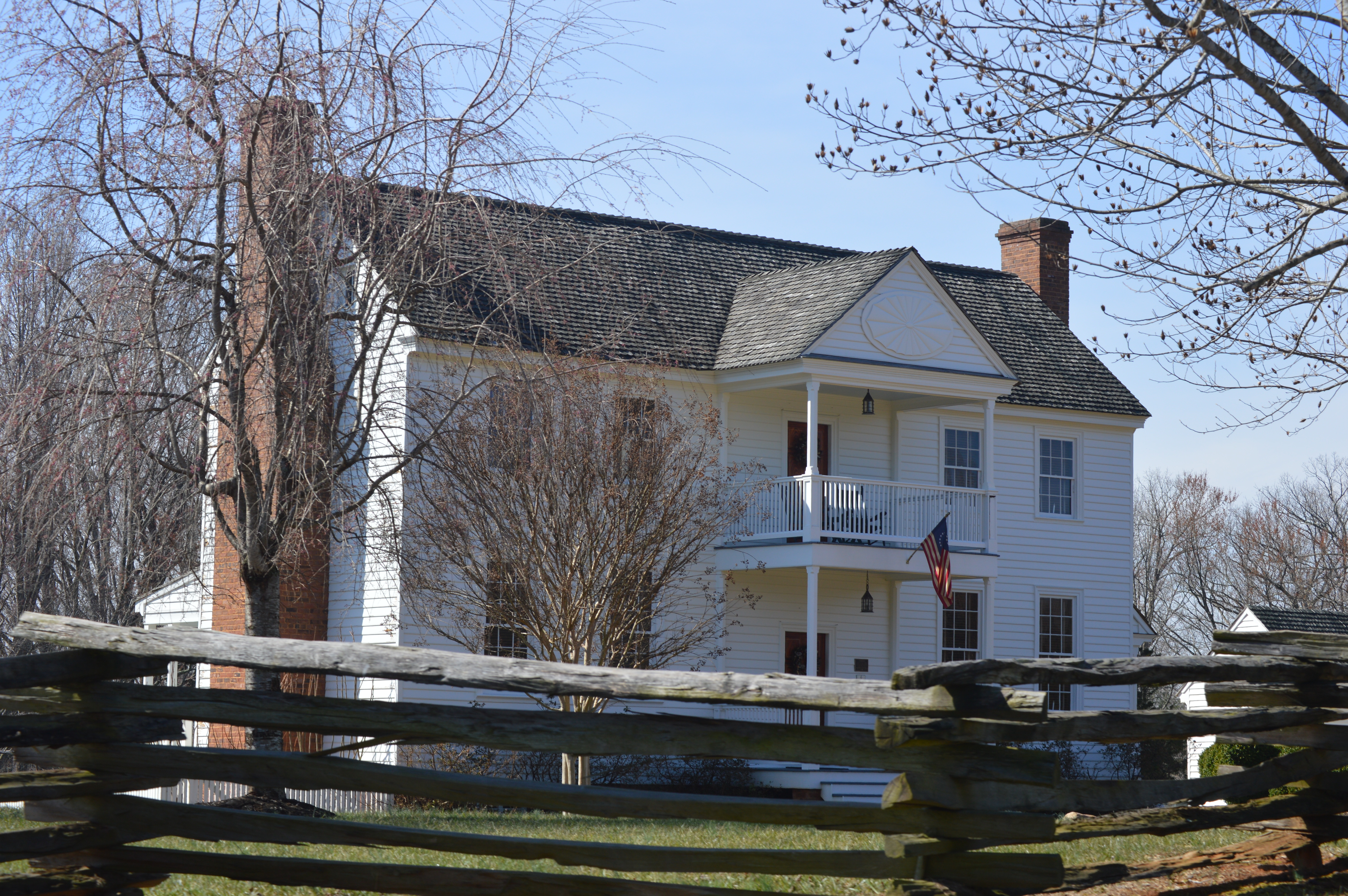 Front and eastern side of the Bowling Eldridge House, located at 1651 Fox Hill Road north of Lynchburg in Bedford County, Virginia, United States. Built in 1822, it is listed on the National Register of Historic Places.